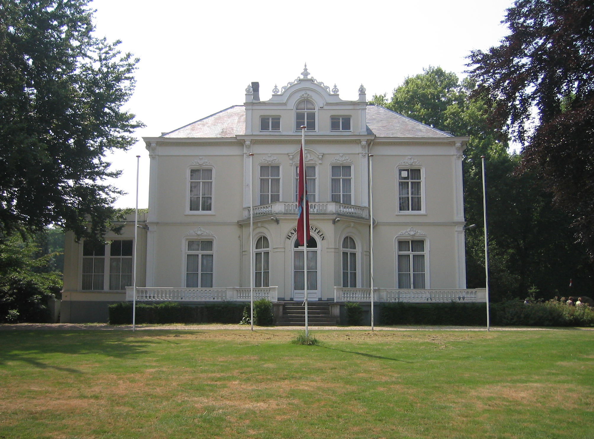 Airborne Museum Hartenstein